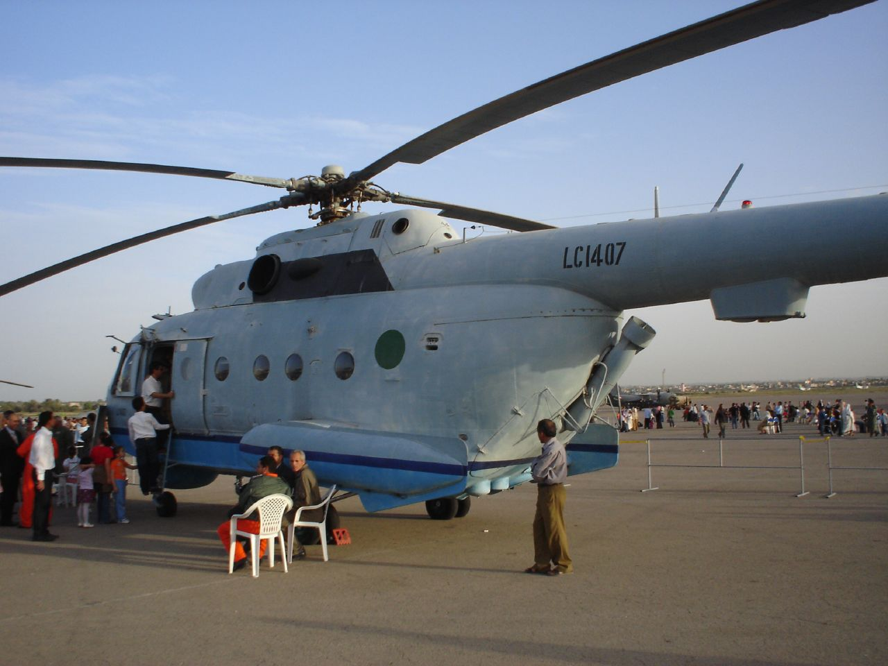 Mil Mi-14 (LC1407) in Libyan Air Navy Force, using as Anti-submarine.